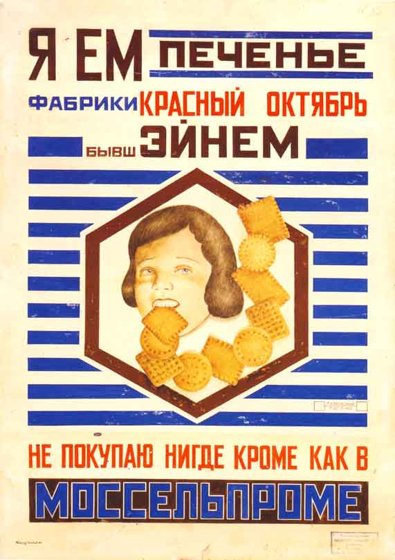 Maquette for an advertisement for cookies from the Krasnyi Oktiabr' (Red October) factory. Translation: "I eat cookies from the Red October factory, the former Einem".